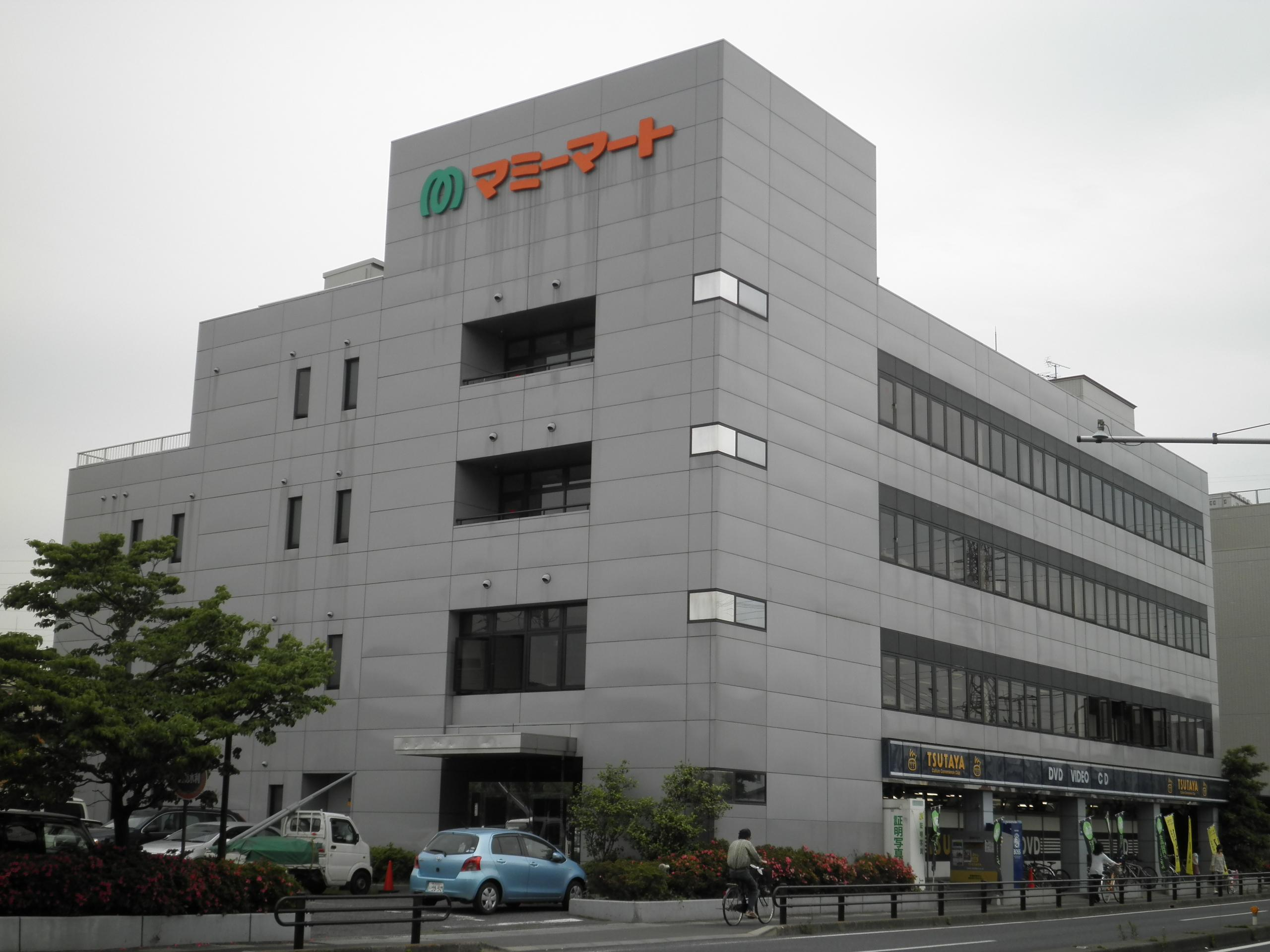 Mammy Mart Corporation Headquarters in Saitama, Japan.